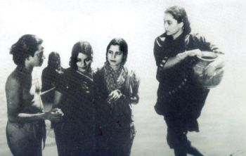 T. N. Rajarathnam Pillai in 1940 Tamil film Kalamegam